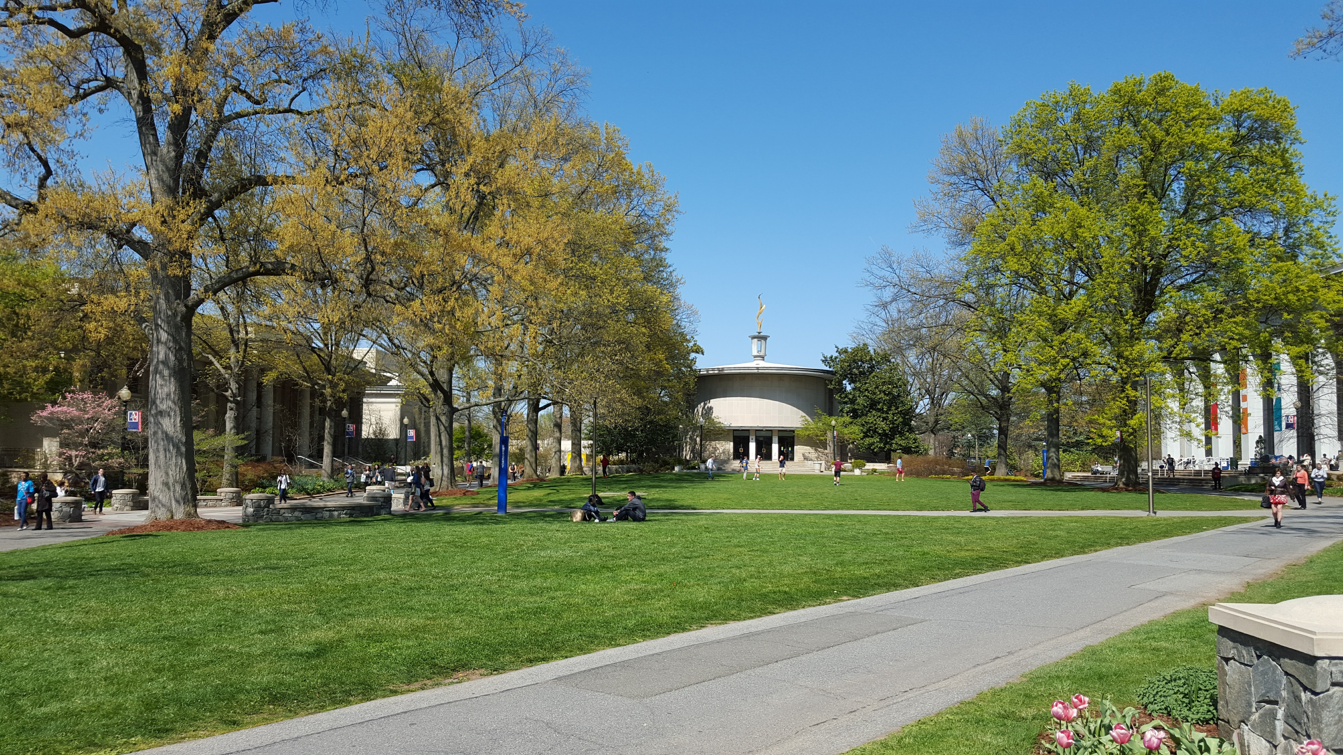 Buildings pictured from left: Kogod School of Business, Kay Spititual Life Center, and School of Public Affairs